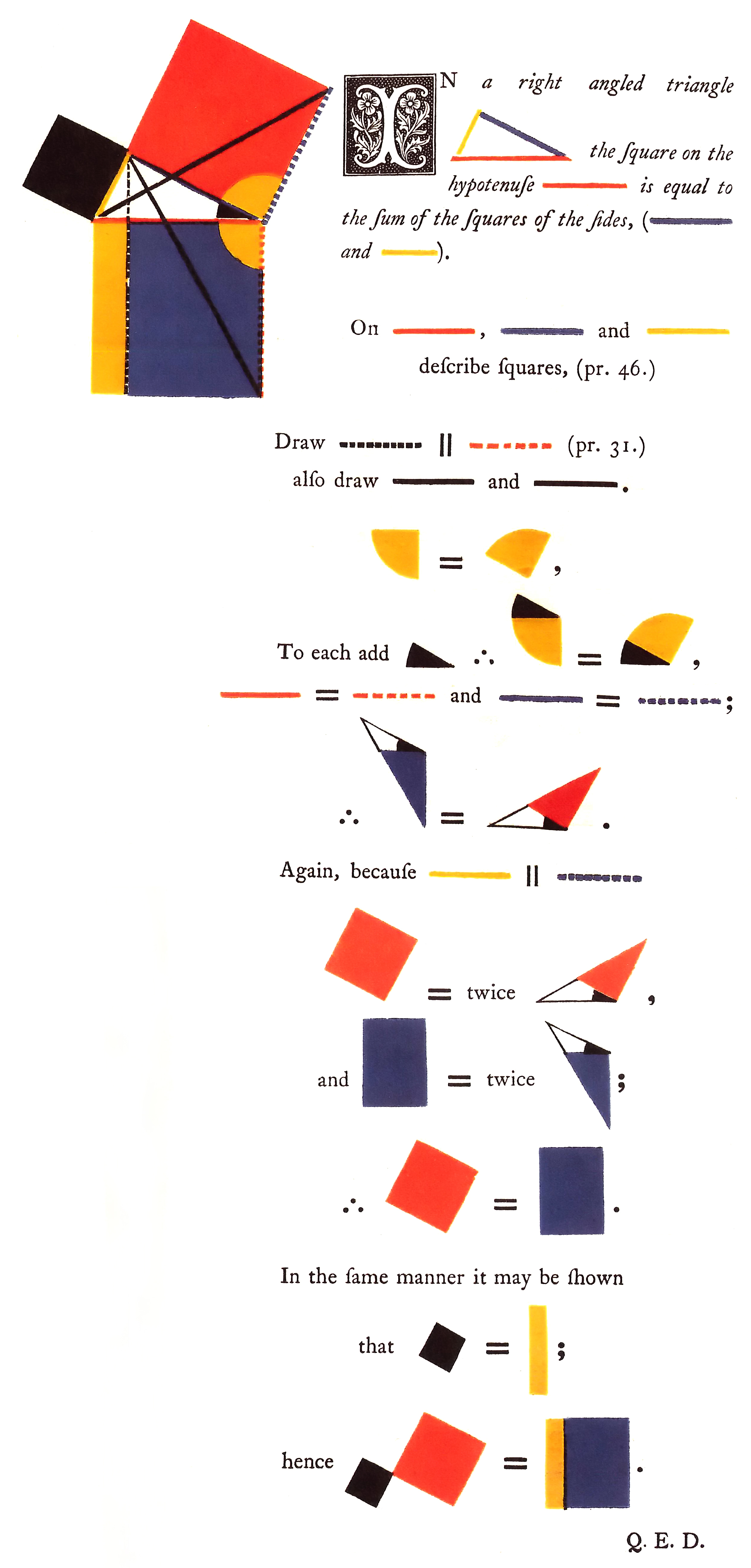 Oliver Byrne illustrated the work of Euclid